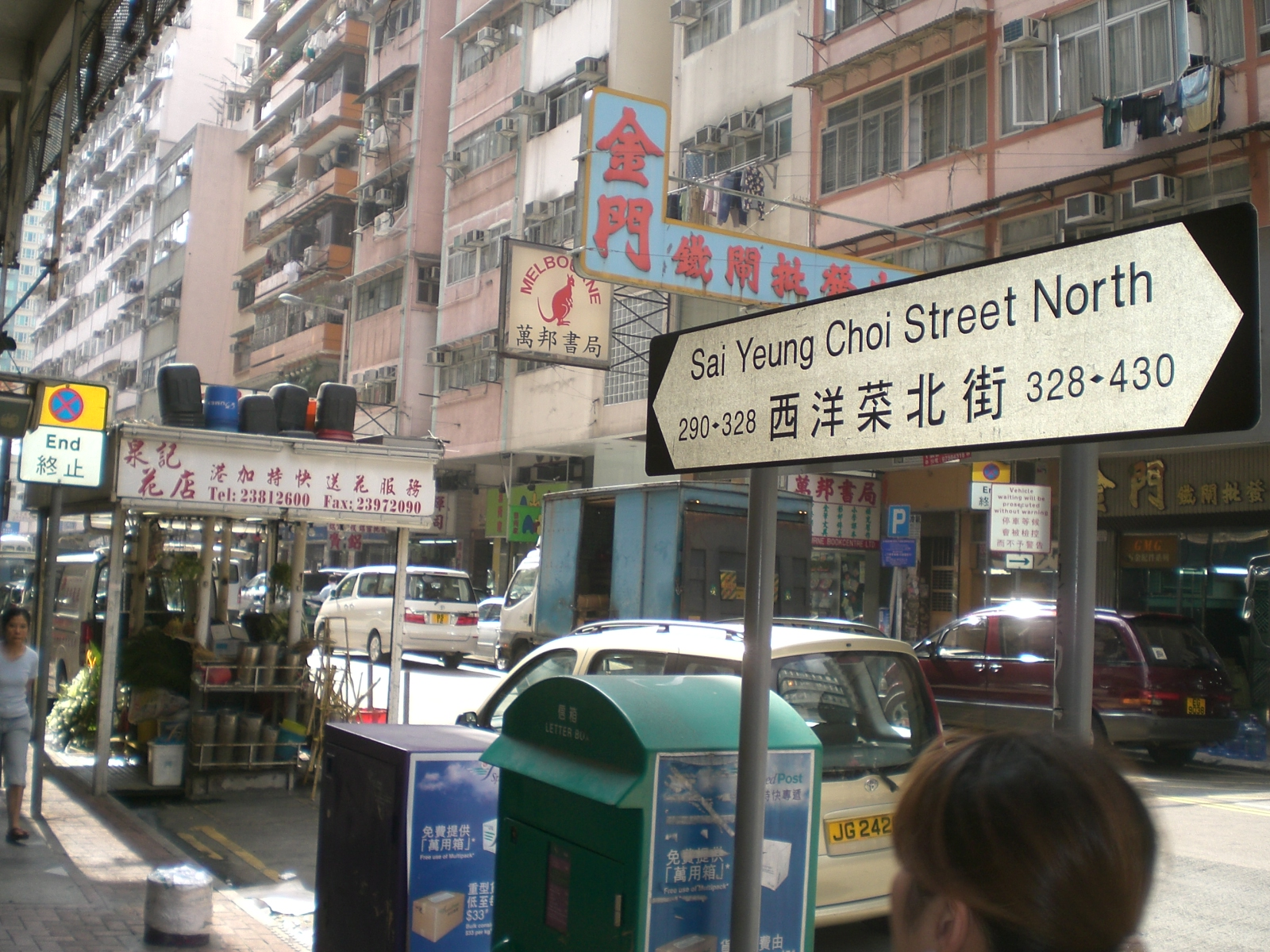 西洋菜街, Sai Yeung Choi Street, Prince Edward, Mongkok, Kowloon, Hong Kong.